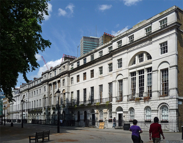 Fitzroy Square